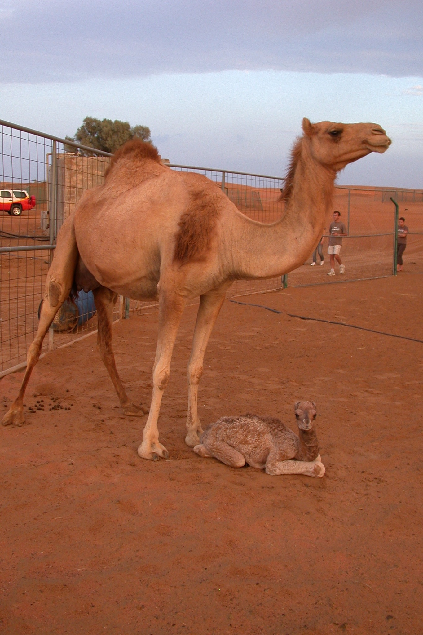 Camel with her newborn calf in Desert of Dubai, UAE.